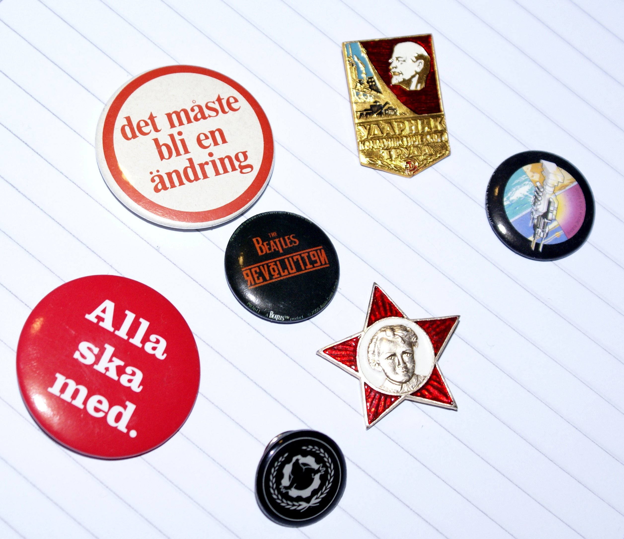 Buttons, Pins. The pins are from different organizations. Examples: Socialdemokraterna, Lenin (as child and adult), Beatles, Pink Floyd